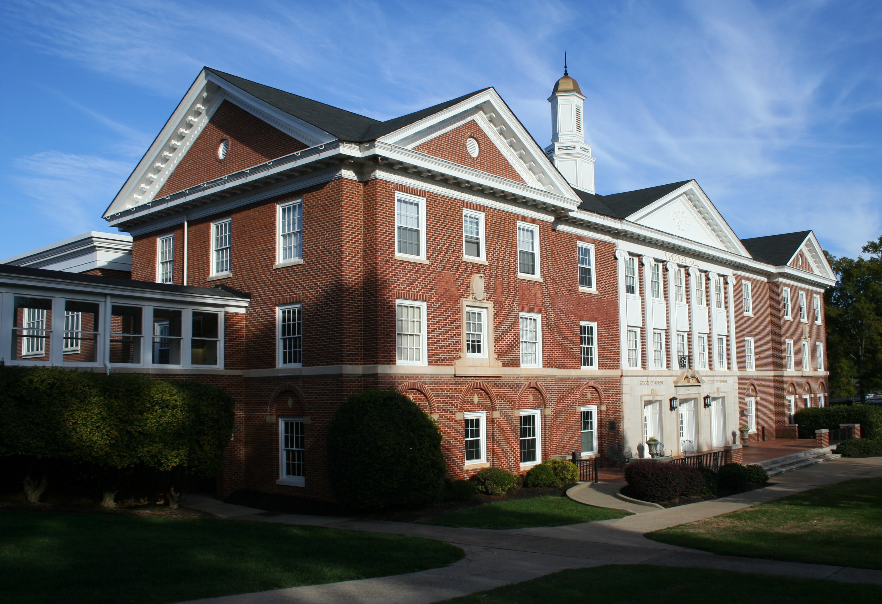 Vandiver Hall at Anderson in late summer